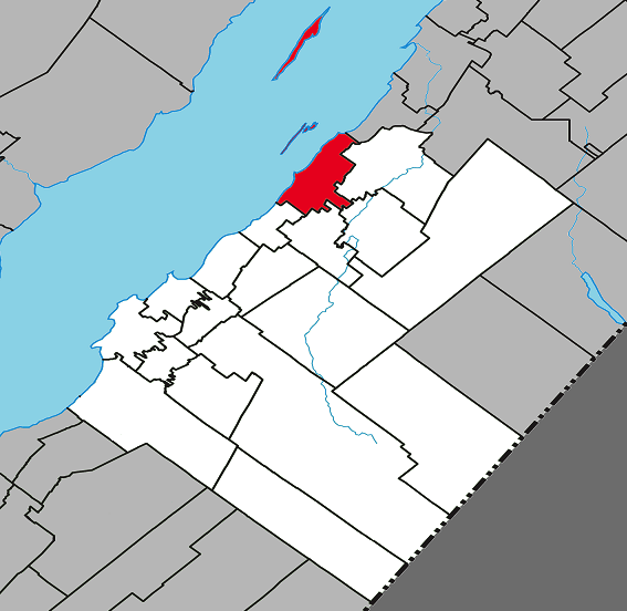 Location of Saint-André, Quebec within Kamouraska Regional County Municipality.